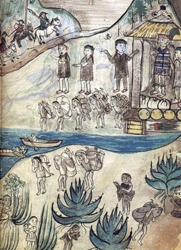 Arrival of the Spaniards to Michoacán